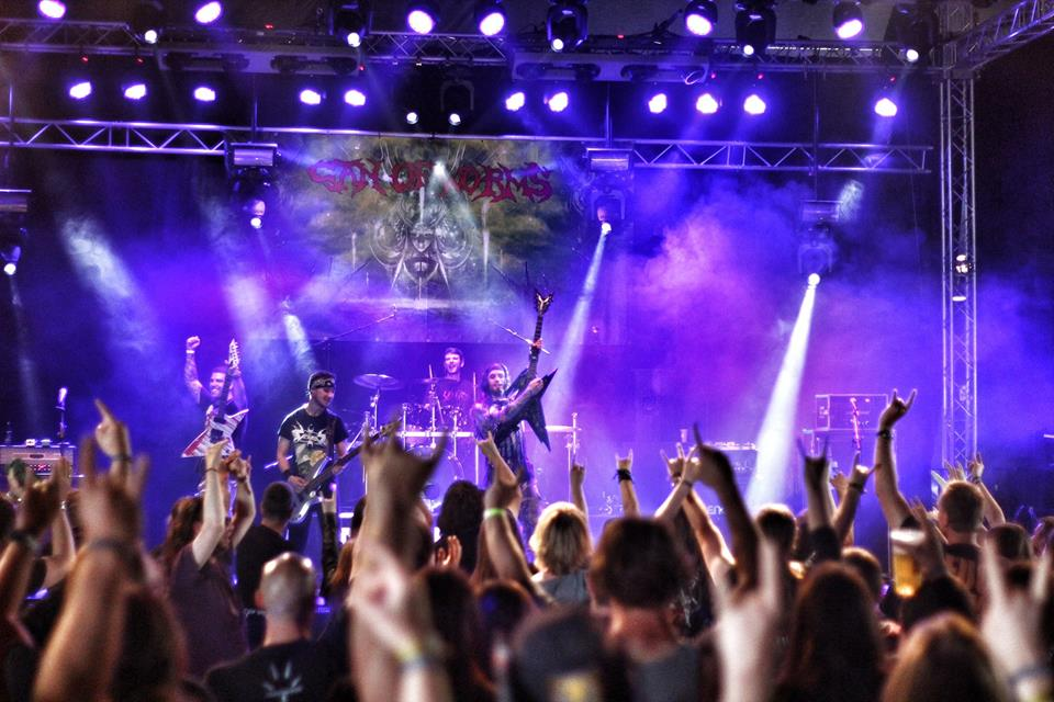 Can of Worms playing at Dong Open Air Festival, Germany, 2016